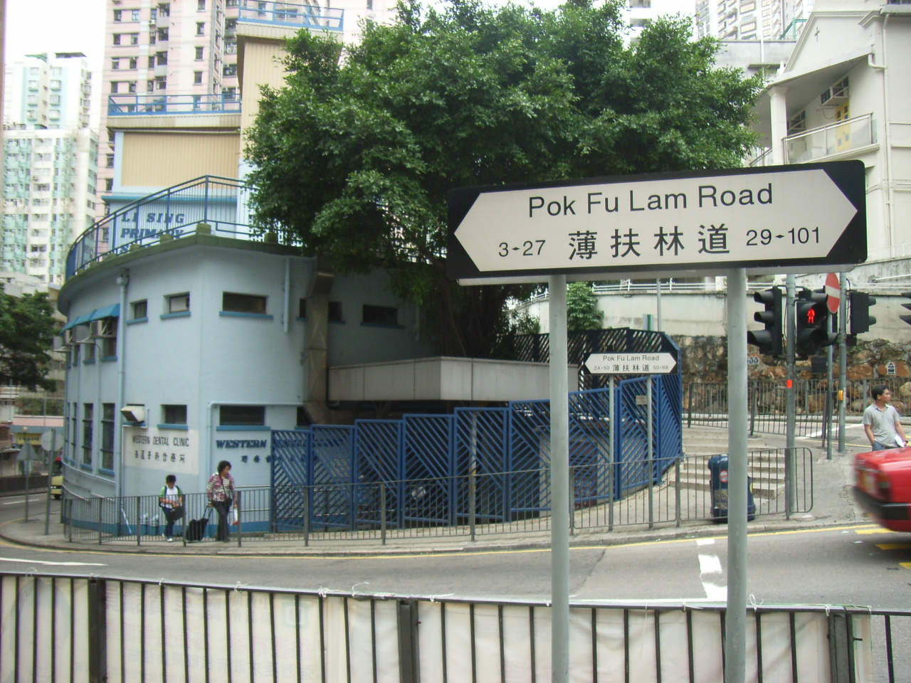 Pok Fu Lam Road, Sai Ying Pun, HK Photography taken by PFL501